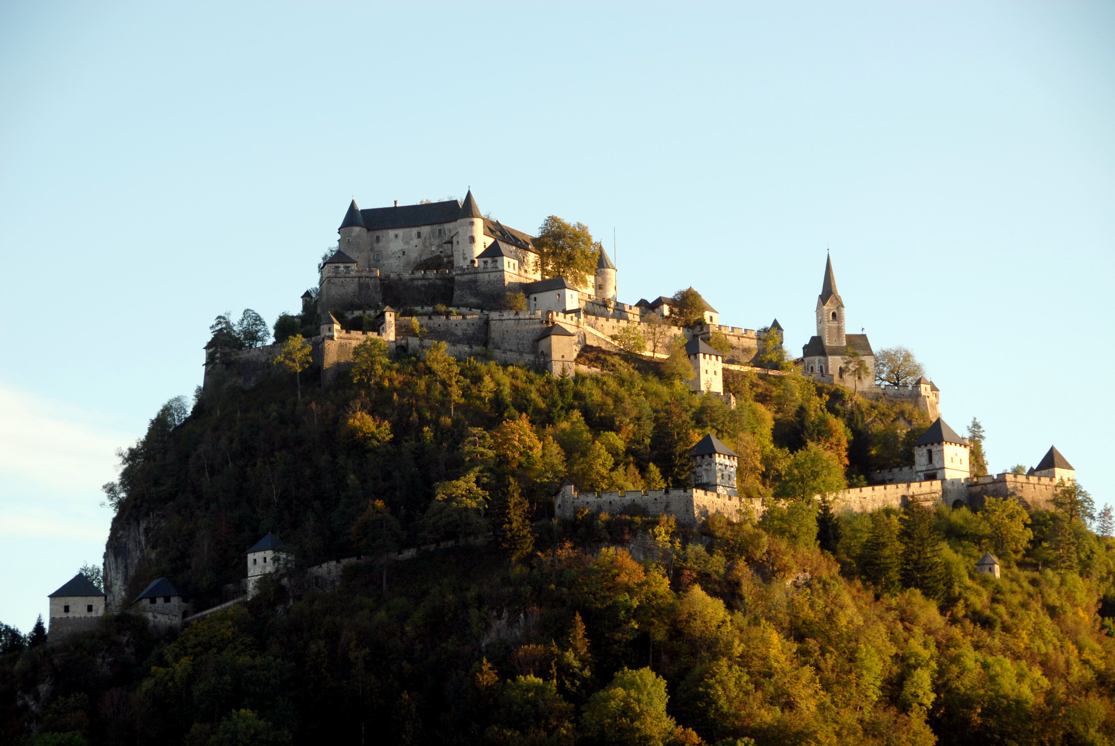 Northern view of castle Hochosterwitz, municipality Sankt Georgen am Längsee, district Sankt Veit, Carinthia, Austria, EU